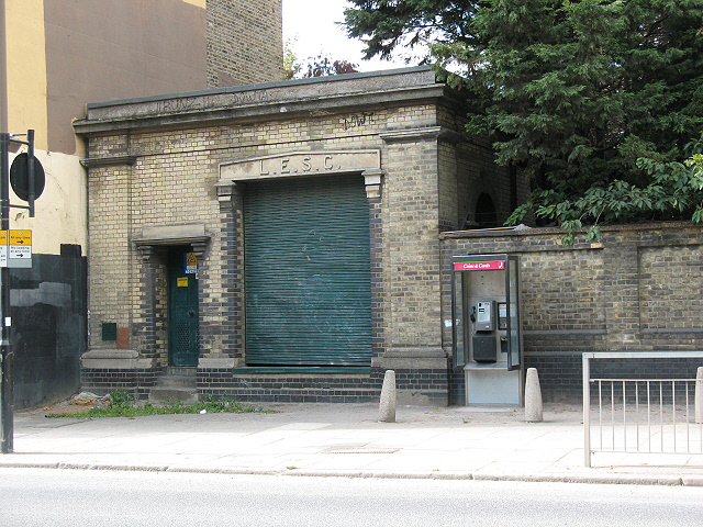 LESC sub-station, Greenwich High Road This is, or was, an electricity sub-station and LESC stands for the London Electric Supply Corporation. It has been dated to c.1920 and is a "rare survival of a company involved in the very earliest days of the commercial supply of electric lighting" - from a more detailed history on a local history website : (died of link rot see:) Greenwich Industrial History A much more recent telephone box stands incongruously alongside.